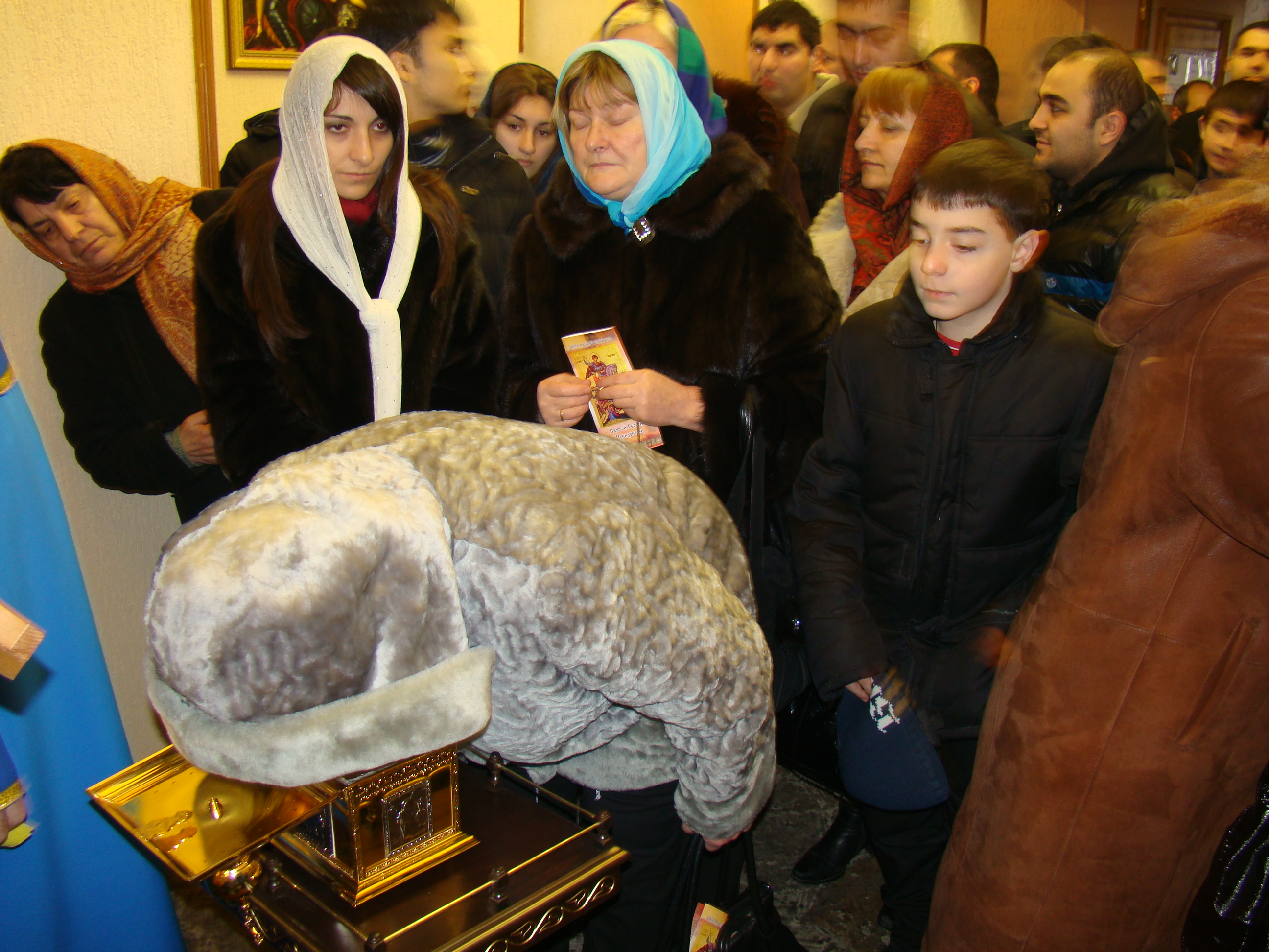 Sourb Gevorg church in Volgograd